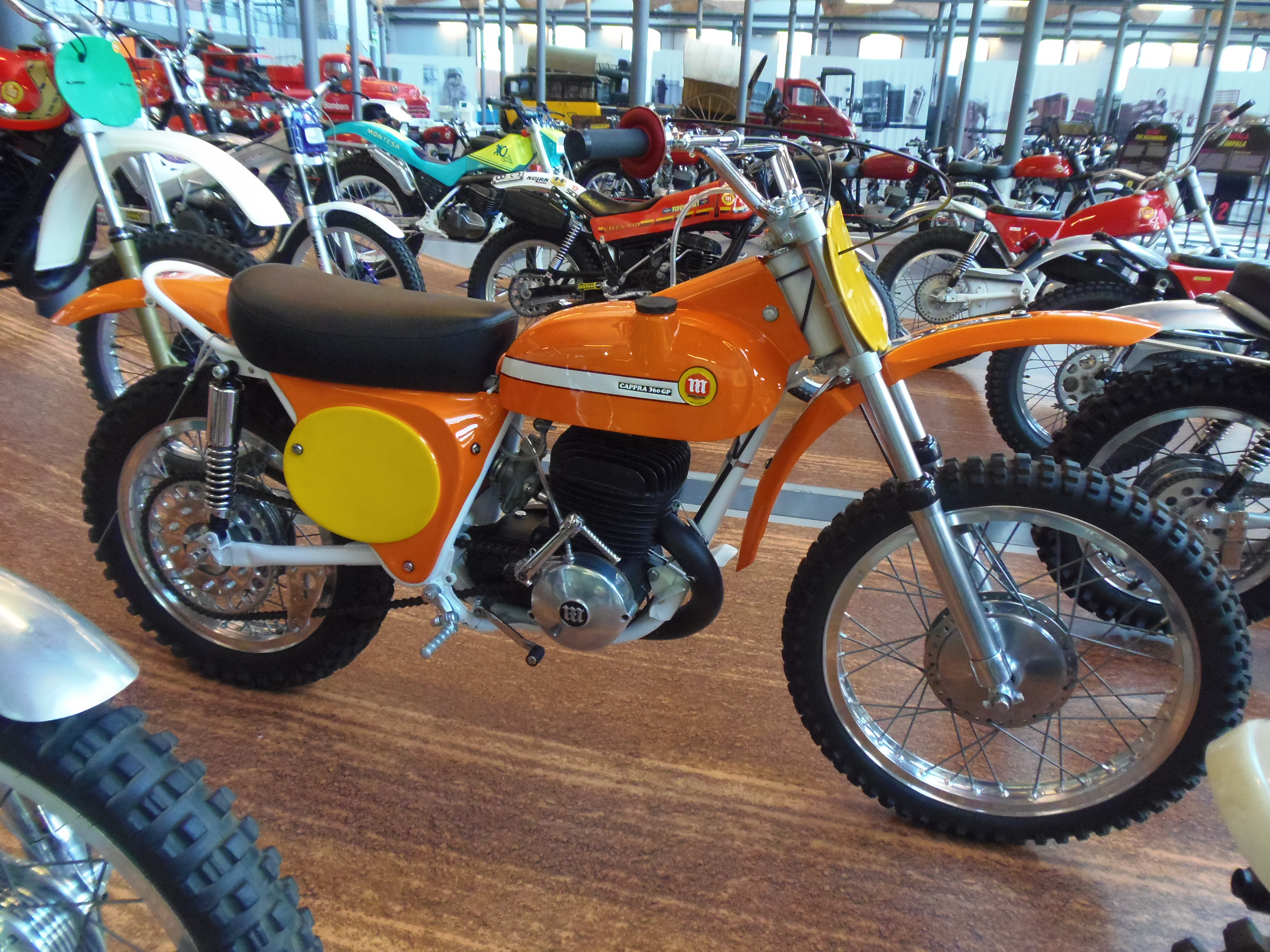 Montesa Cappra GP 360cc (1968)